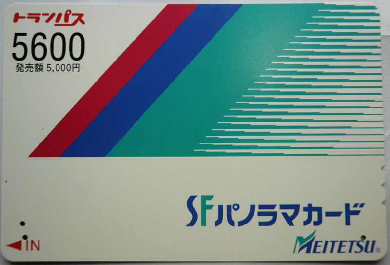 SF_Panorama_Card(Meitetsu vertion)